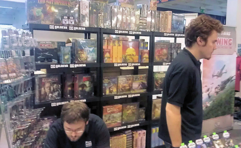 Galakta publisher, Pyrkon 2013, Poznań, Poland